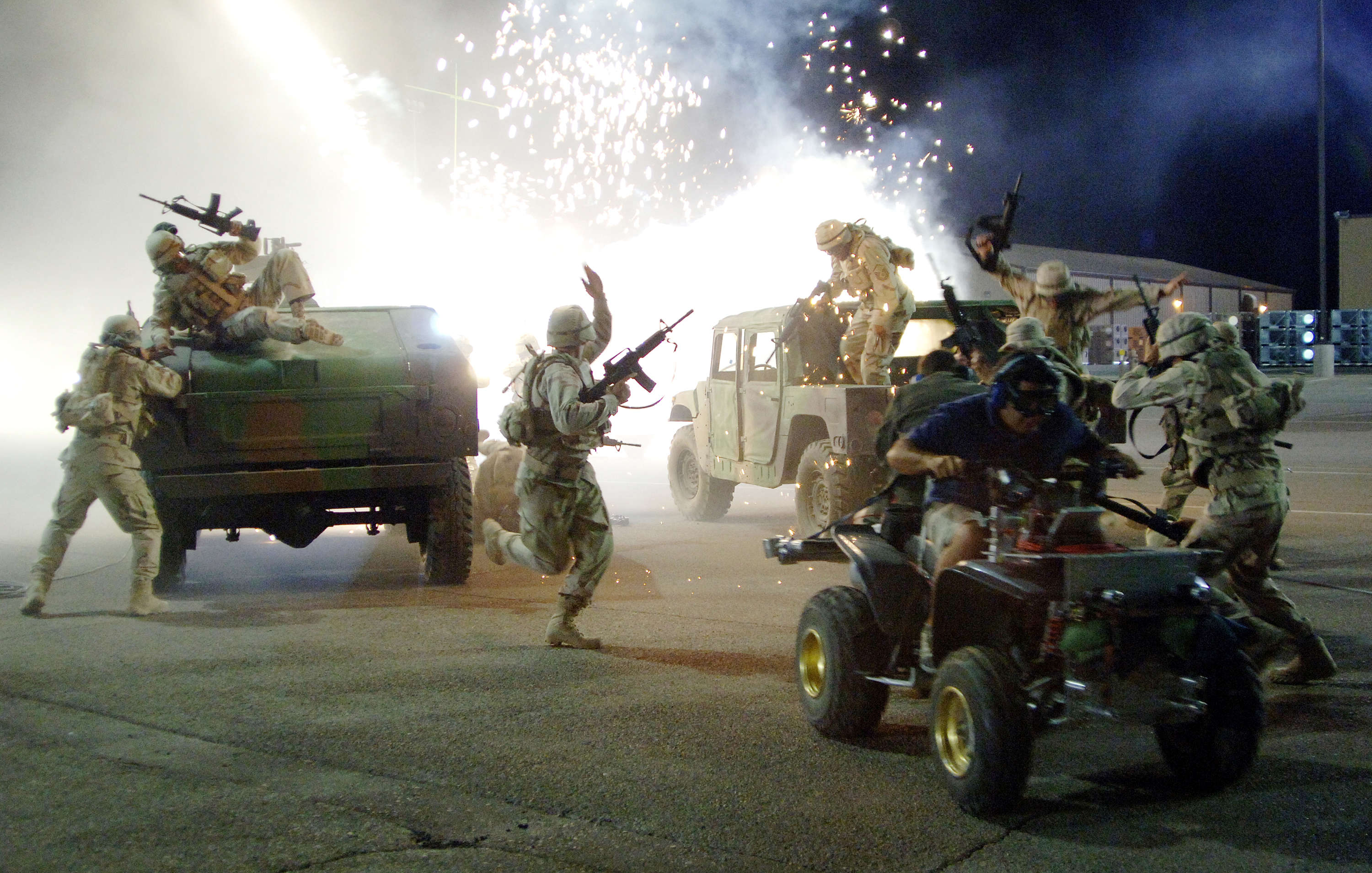 Airmen filling the roles of extras on the set of the movie Transformers run for cover while a camera crew on a four-wheeler captures the action during filming at Holloman Air Force Base, N.M., on May 31. The movie is scheduled for release in July 2007.